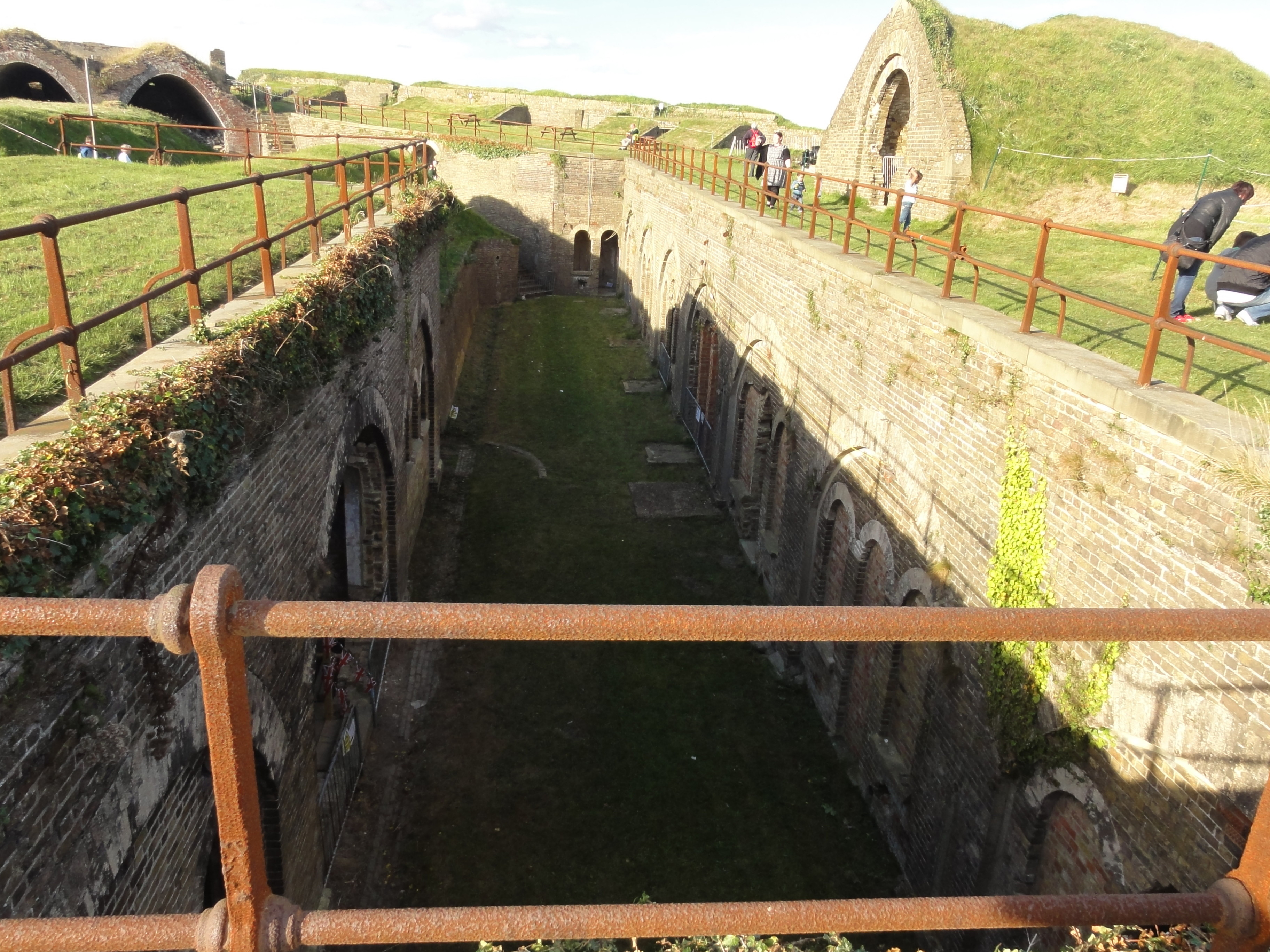 Dover - 2014 - Inside Drop Redoubt on Western Heights